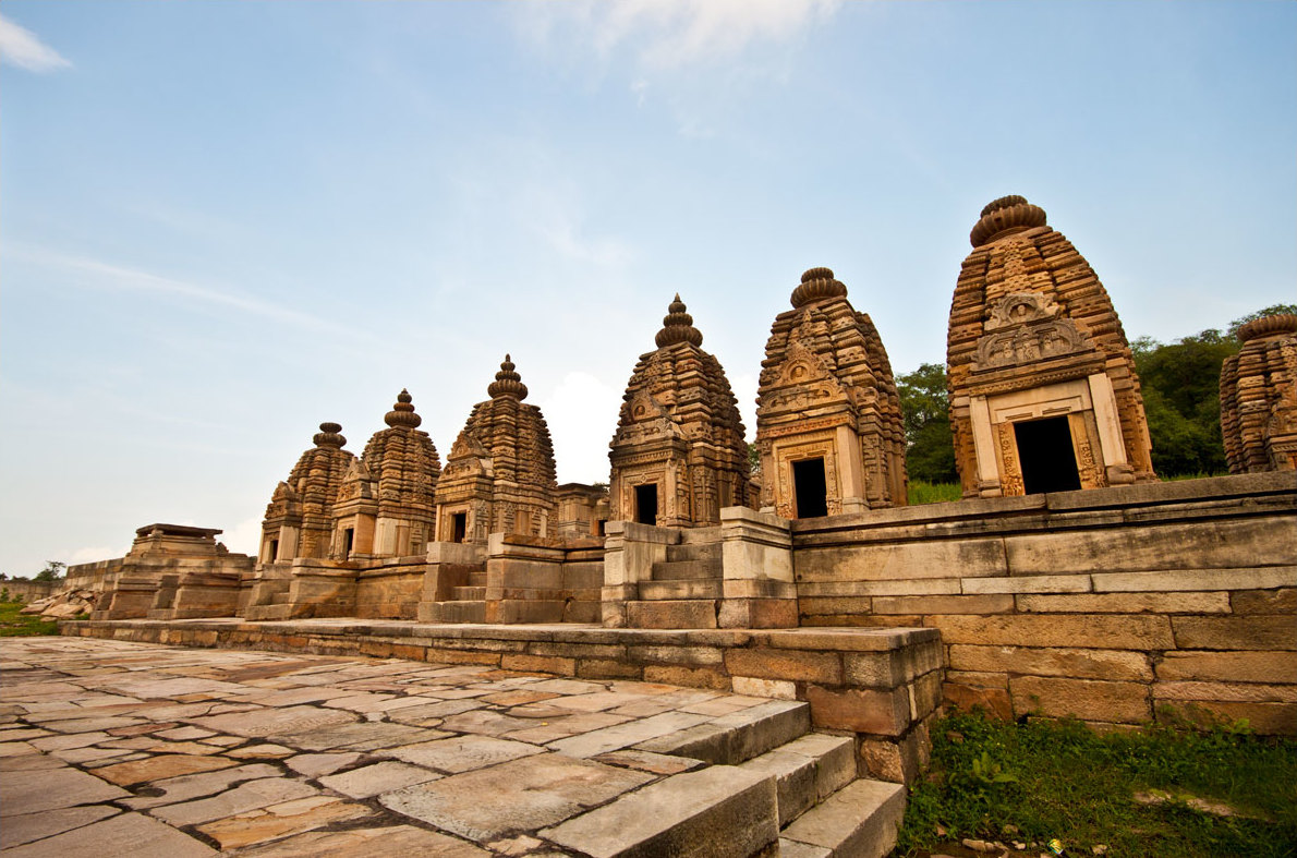 Bateshwar Temple Complex, Morena District, Madhya Pradesh